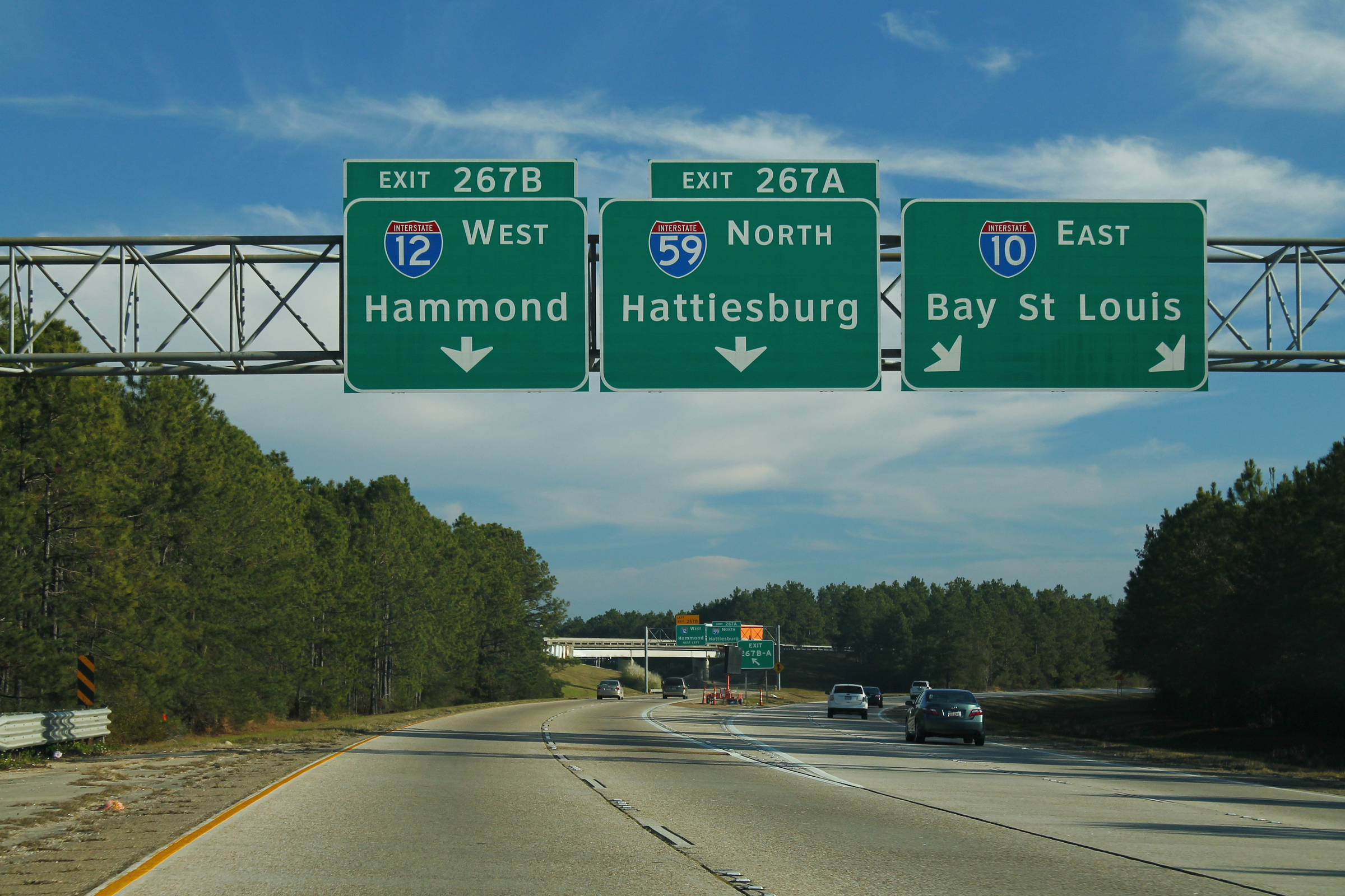 Int10eRoadLA-Exit267AB-Int59-Int12w